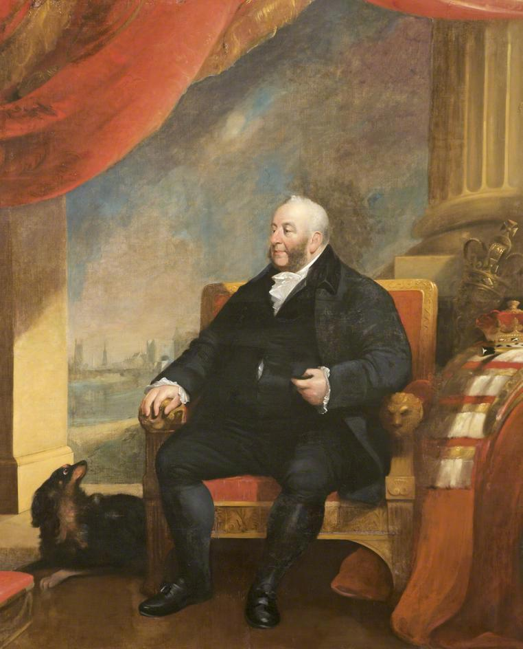 Charles Howard (11th Duke of Norfolk) acquired Newark House and the Llanthony Priory Estate by marriage in 1771. He became the leader of the Whig Party majority on Gloucester City Council and was Mayor six times. He carried out much modernising work in the City.